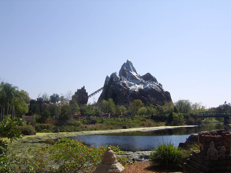 Expedition Everest at Disney's Animal Kingdom. Picture taken March 18 2006